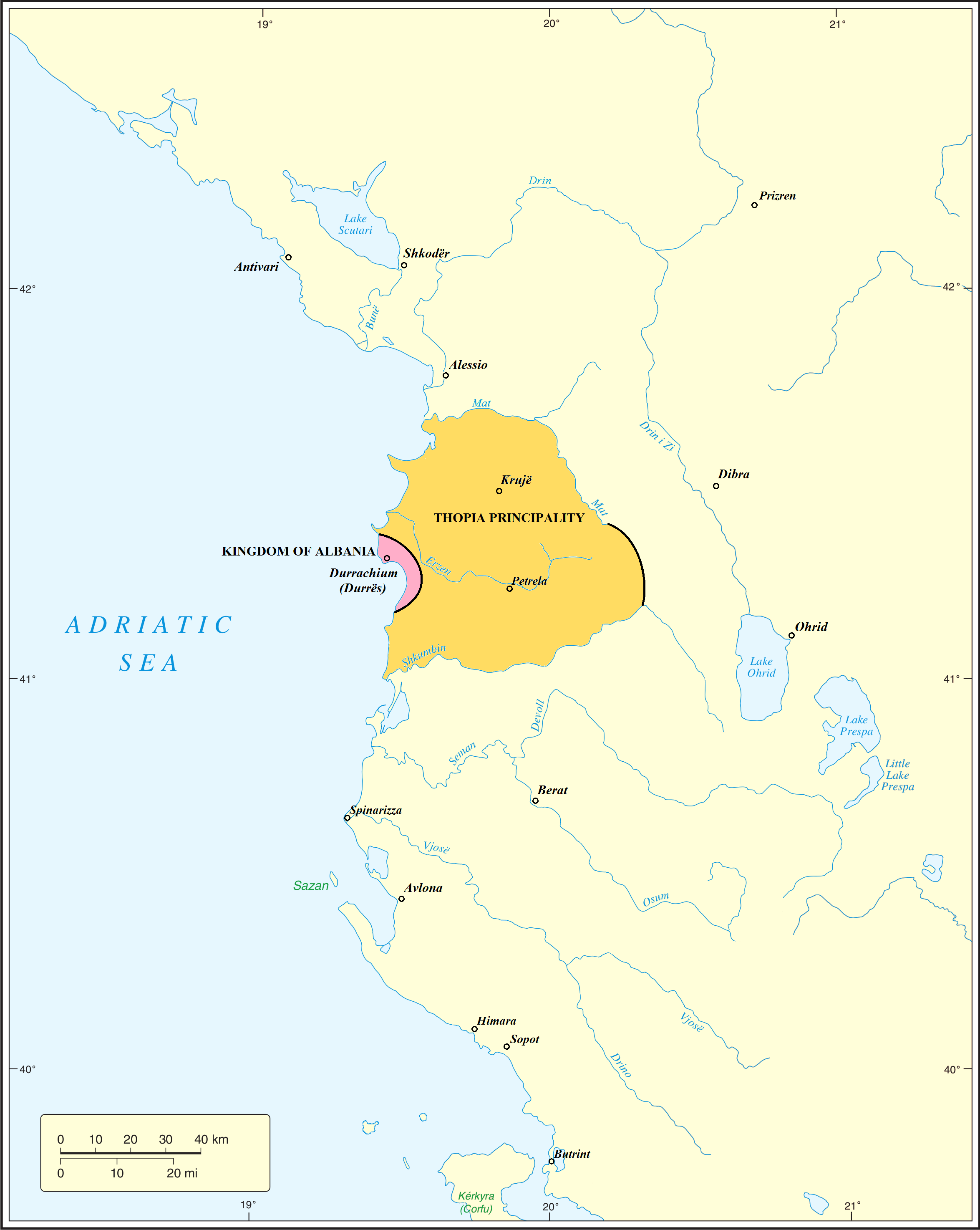 This work is based on "Historia e popullit shqiptar në katër vëllime" Anamali, Skënder and Prifti, Kristaq. Botimet Toena, 2002, ISBN 9992716223 p. 250